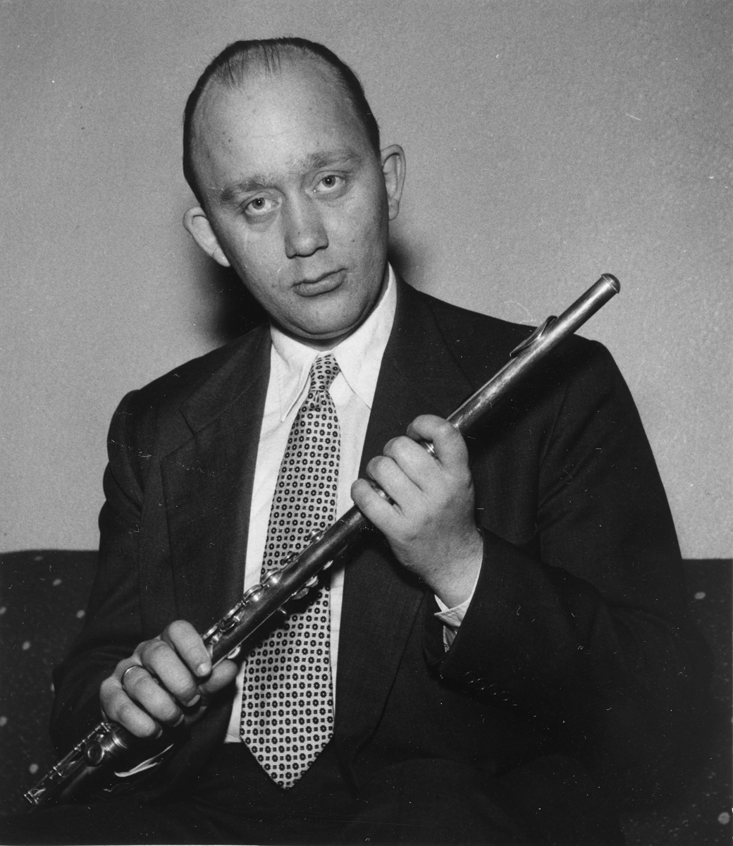 Norwegian flutist Alf Andersen (1928–1962), photo in Morgenposten on 6 Jun 1962, less than three weeks before his death.